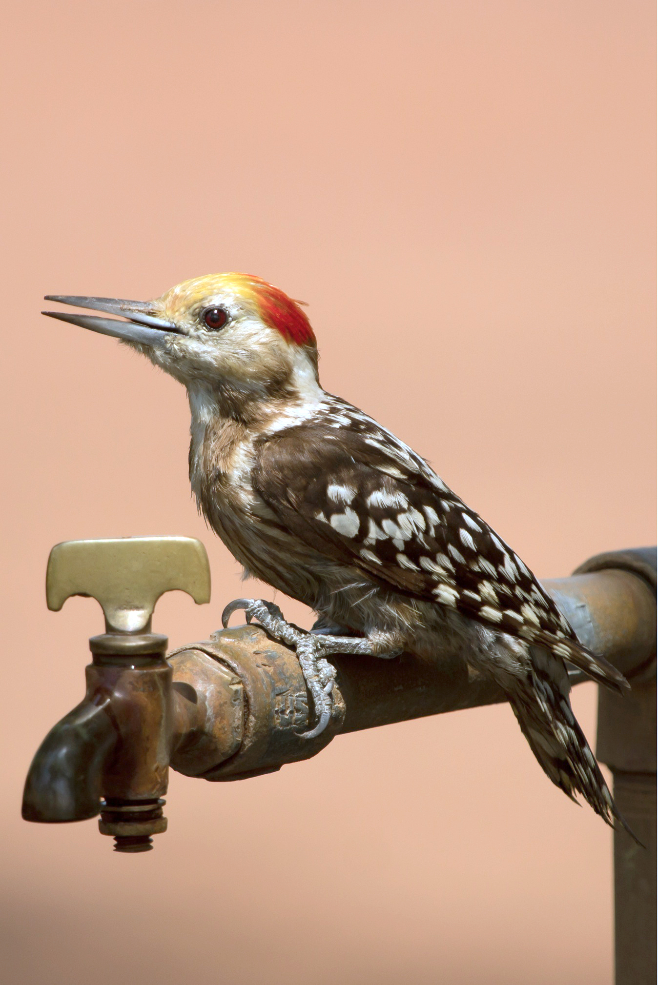 At Tadoba Andhari Tiger Project